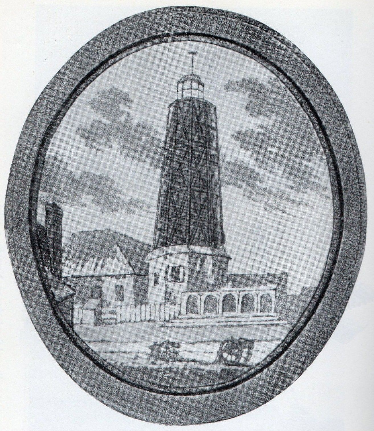 Hooper's vertical axis windmill, Margate, Kent. Built 1791, demolished c1828